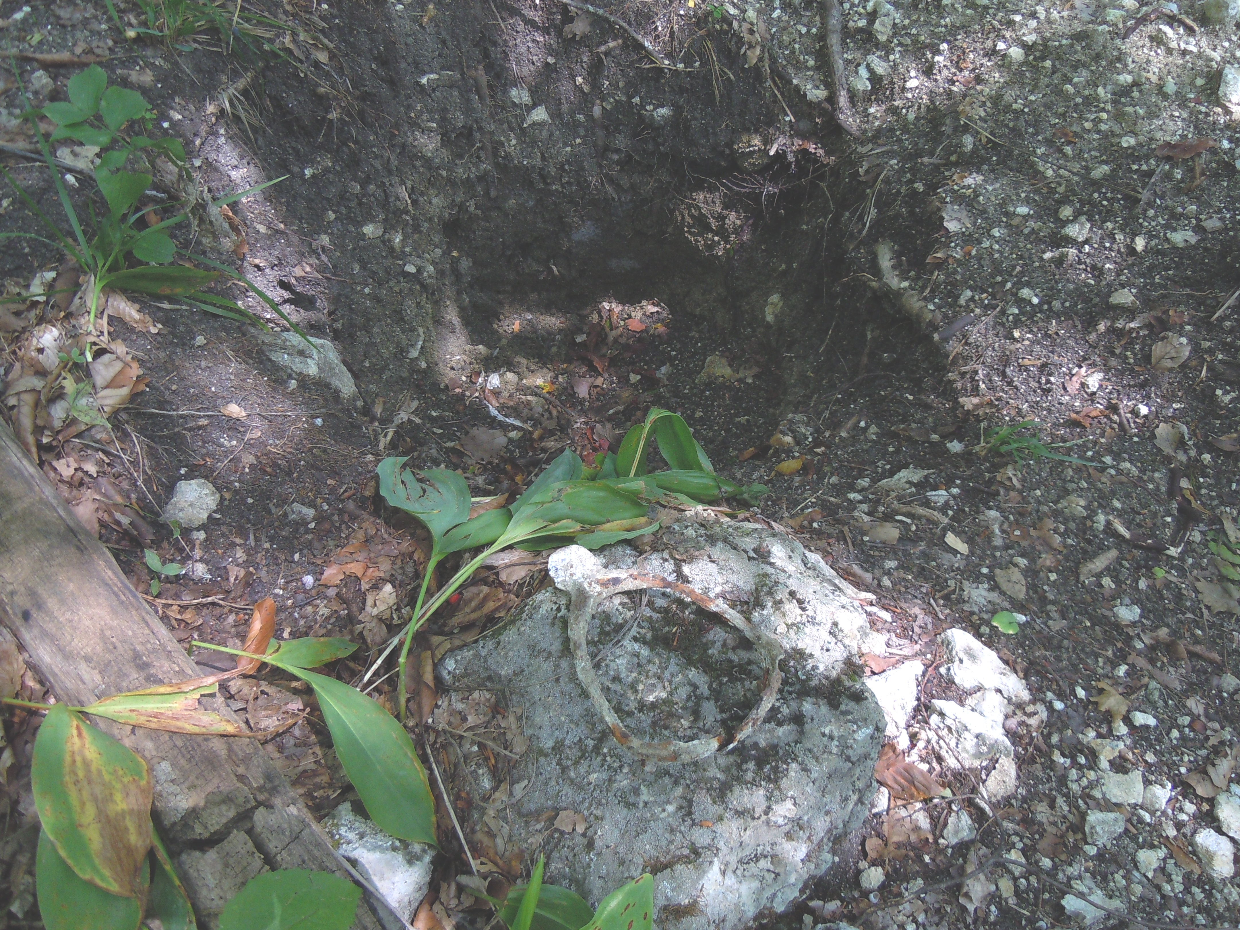 The work of robbers in Adygea, near the village of Novosvobódnaya, the year 2013